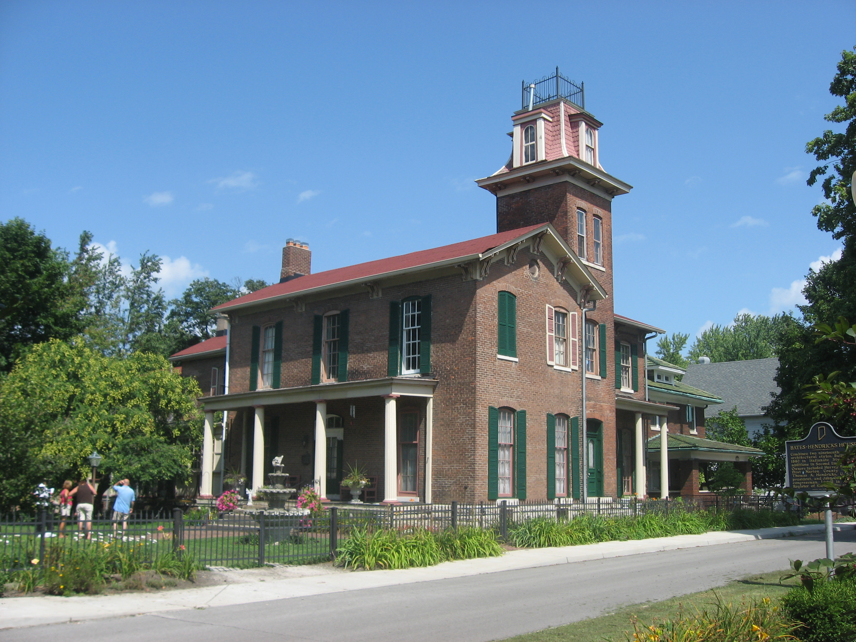 Front and southern side of the Bates-Hendricks House, located at 1526 S. New Jersey Street in Indianapolis, Indiana, United States. Built in 1860, it is listed on the National Register of Historic Places.